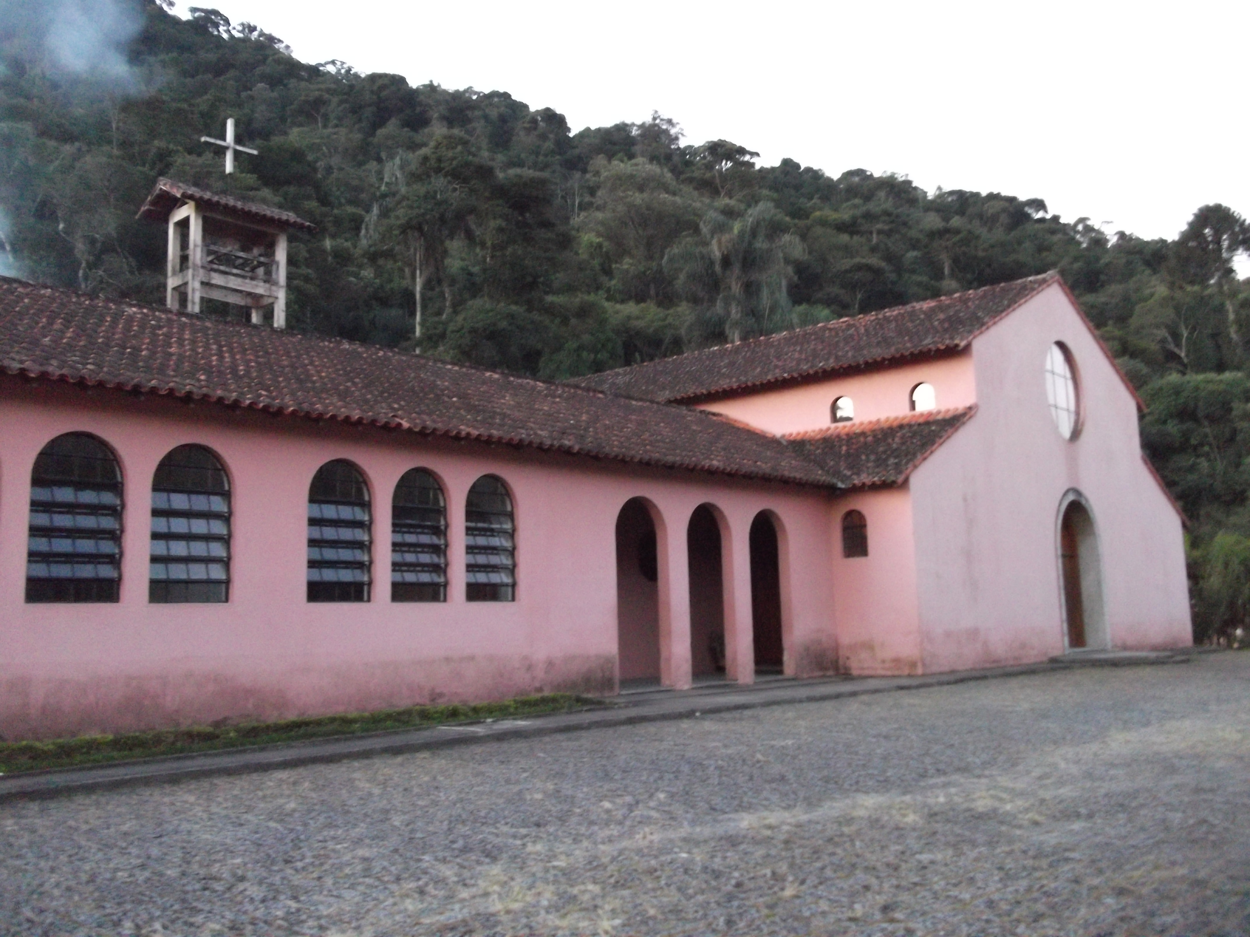 Virgin's Monastery (benedictine nuns). Petrópolis, Rio de Janeiro State, Brazil